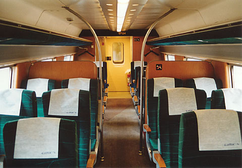 Interior of a Linxtåg-train at Malmö central station in Sweden.